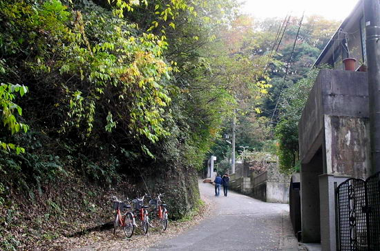 The road which goes from the Kamegayatsu Pass to the Kewaizaka Pass